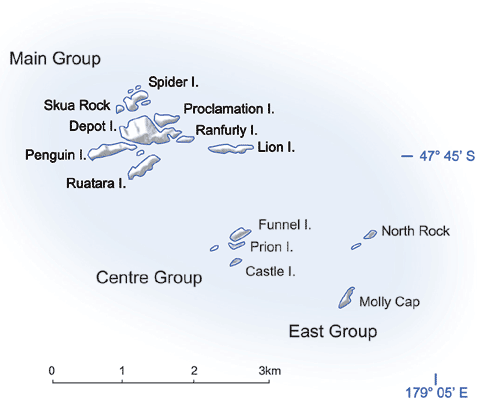 Map of Bounty Islands, New Zealand